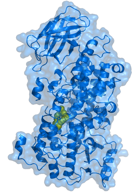 self made in Pymol from PDB:1LOX